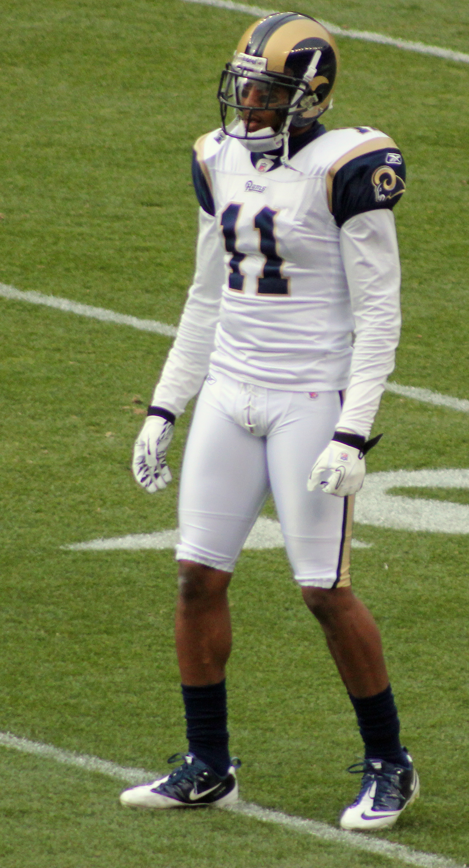 Brandon Gibson, a player on the Saint Louis Rams American football team.